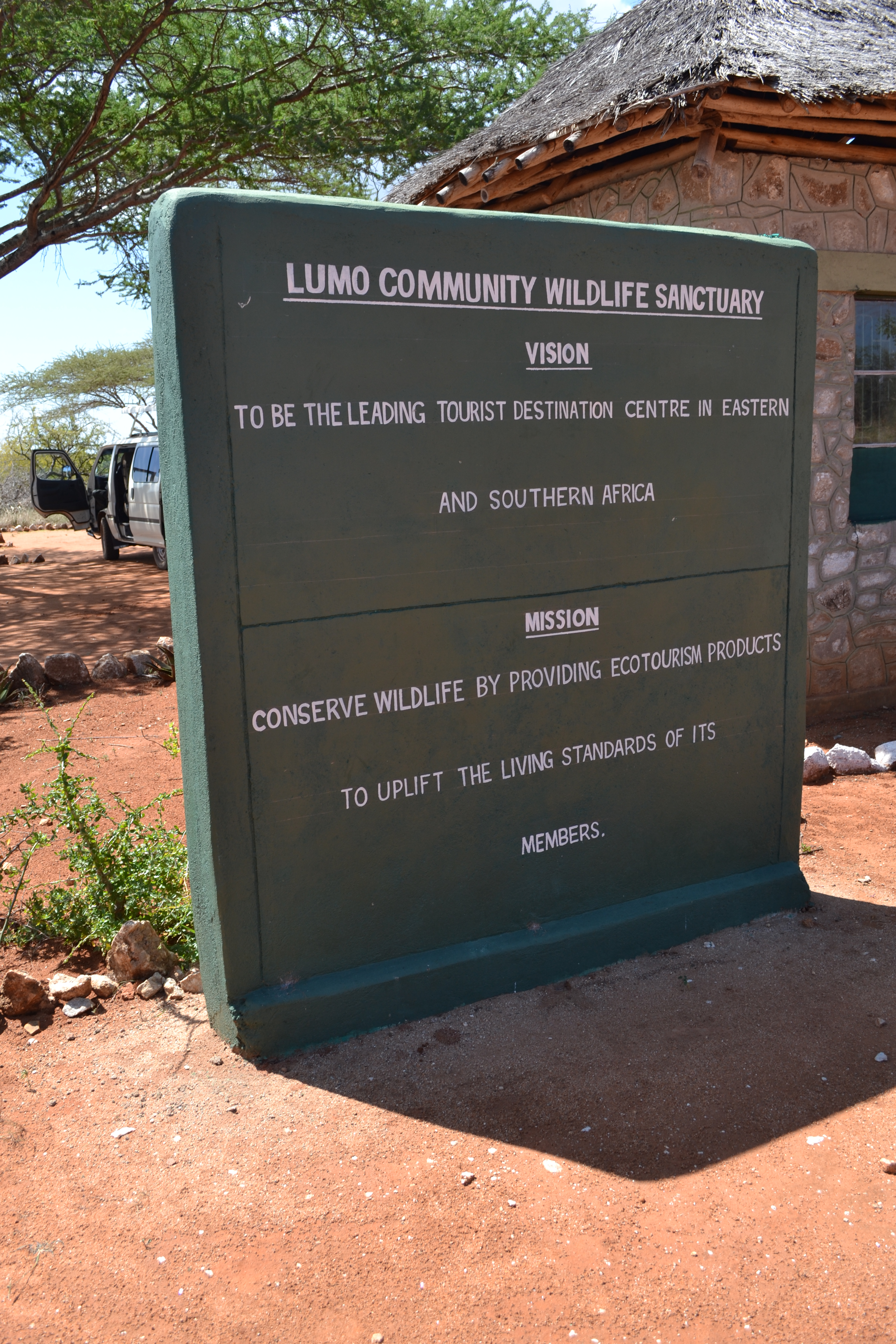 Vision and mission statement of LUMO Community Wildlife Sanctuary, at the main gate to the park, near the A23 road, in Kenya.